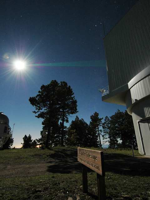 Apache Point Observatory 3.5m telescope running APOLLO lunar laser ranging experiment taken by Dan Long